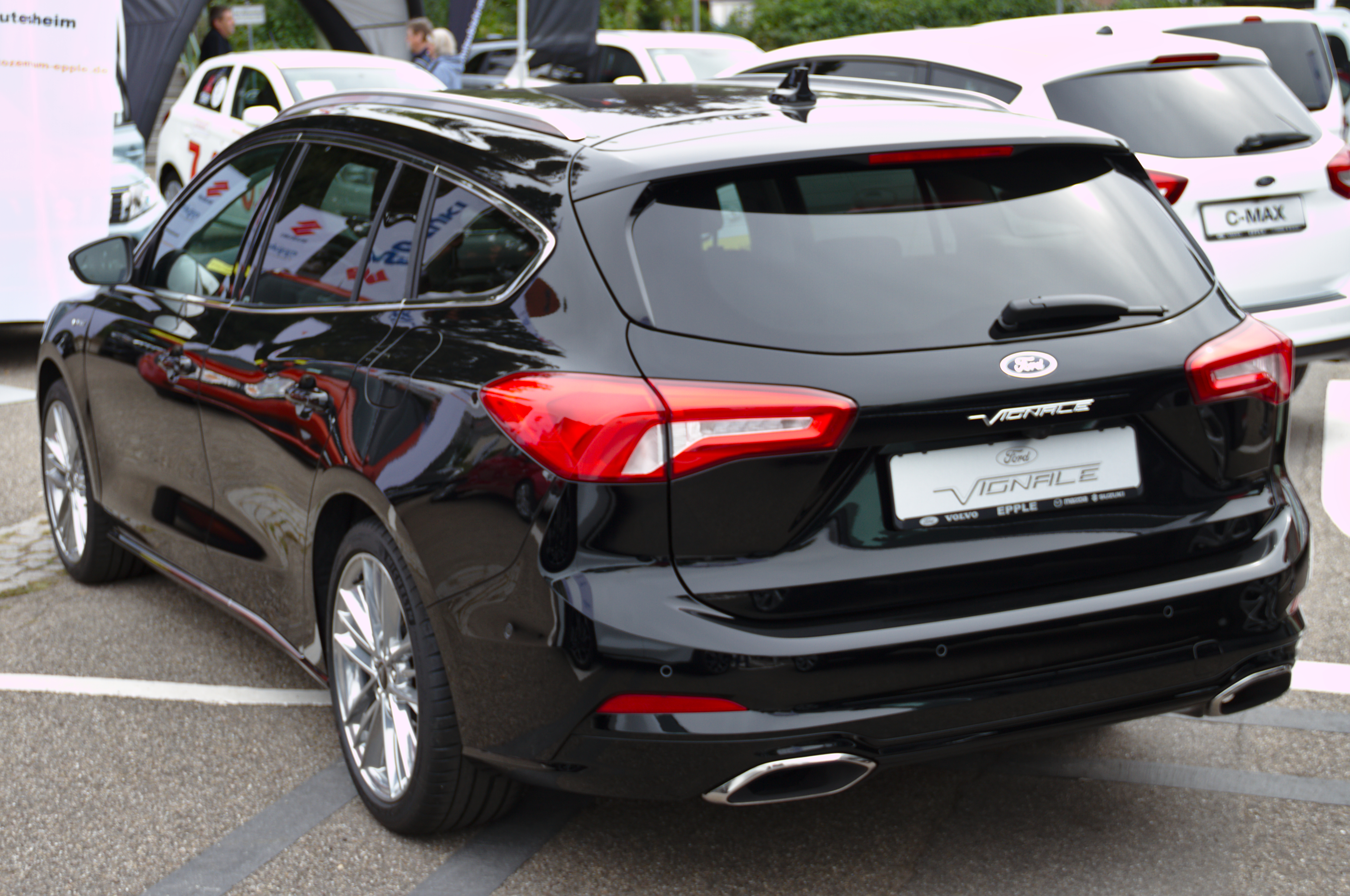 Ford_Focus_Turnier_Vignale at Leonberger Autoschau 2019